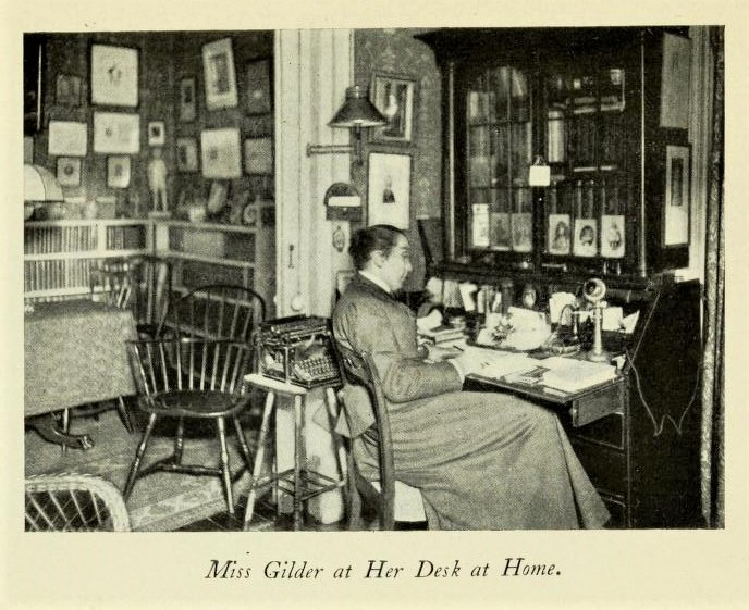 Photograph of American writer Jeannette L. Gilder (1849-1916) at her home in New York City. From Women Authors of Our Day in Their Homes by Francis Whiting Halsey. New York: James Pott and Company, 1903: p. 232. The caption reads: "Miss Gilder at her Desk at Home" (New York City).